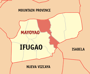 Map of Ifugao showing the location of Mayoyao